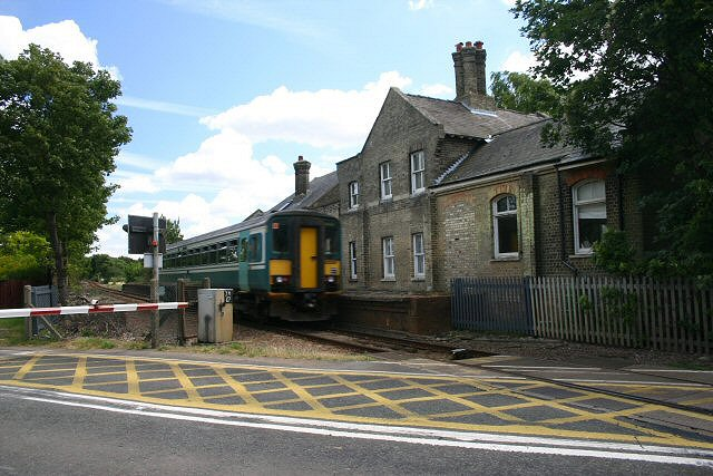 Old station at Six Mile Bottom The railway station at Six Mile Bottom, on the line between Cambridge and Ipswich, was closed in January 1967. The building is now a private residence.